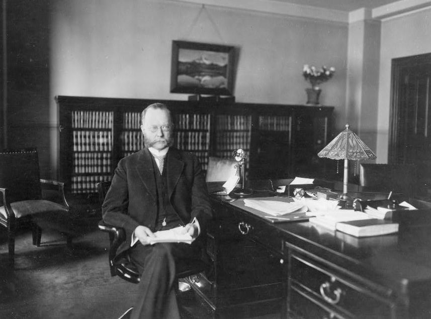 William C. Redfield.